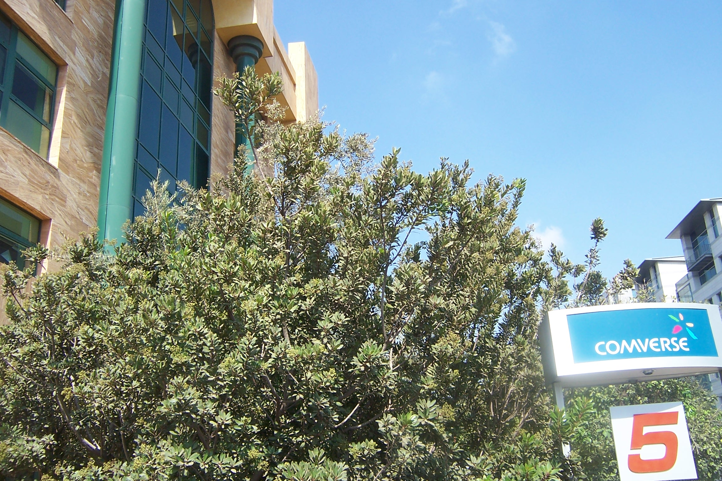 A side entrance of one of Comverse Technology's buildings on HaBarzel Street in Tel Aviv, Israel.